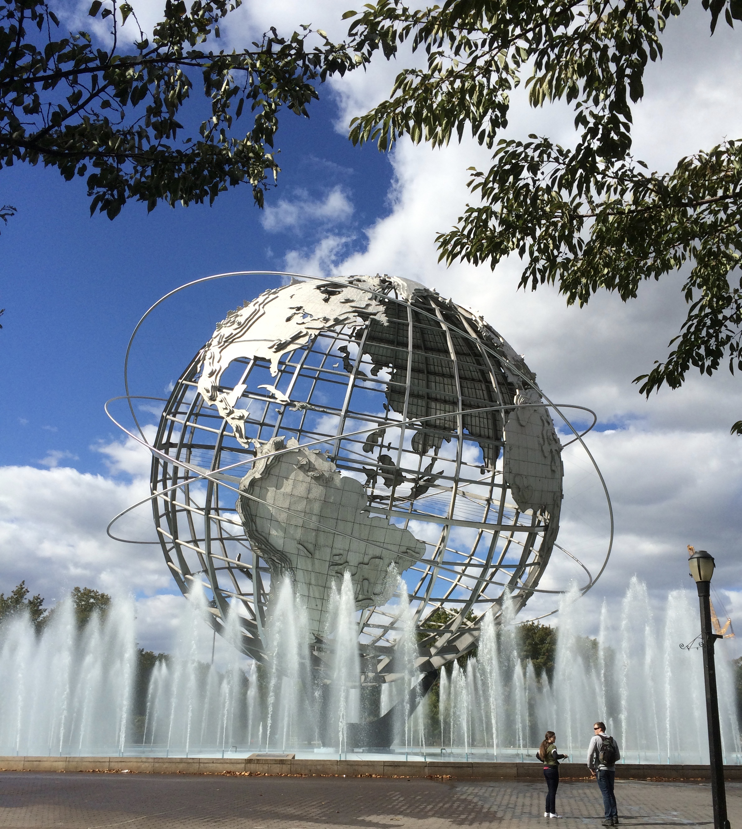 Fountains surround the Unisphere in Flushing Meadows-Corona Park. Refurbished from the original at the 1964 World's Fair.